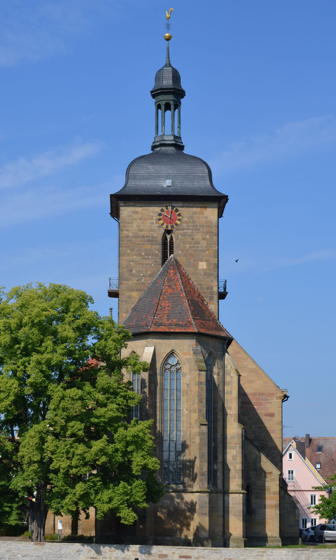 Church of St. Regiswindis in Lauffen am Neckar as seen from the castle.